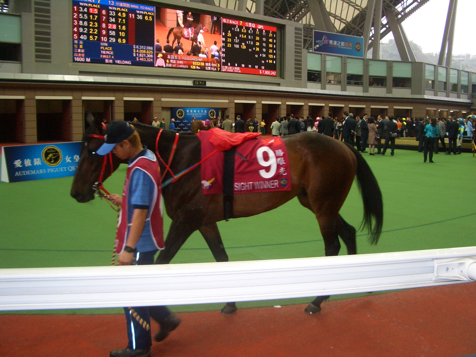 Sight Winner, a thoroughbred racehorce trained in Hong Kong 中文（香港）: 勝眼光，香港純種競賽馬匹